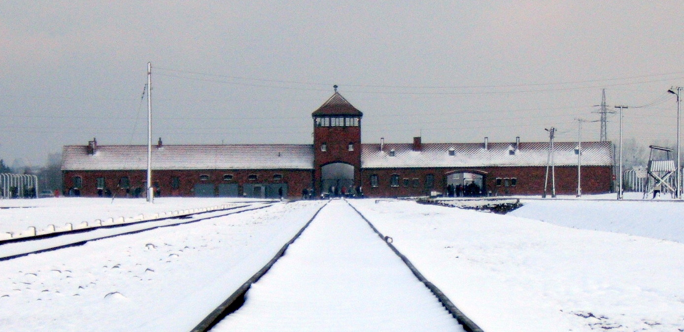 Gate of Auschwitz II-Birkenau, German death camp, symbol of the Holocaust, viewed from inside the camp. The image shows the railway line and Judenrampe that were in operation from May until October 1944.